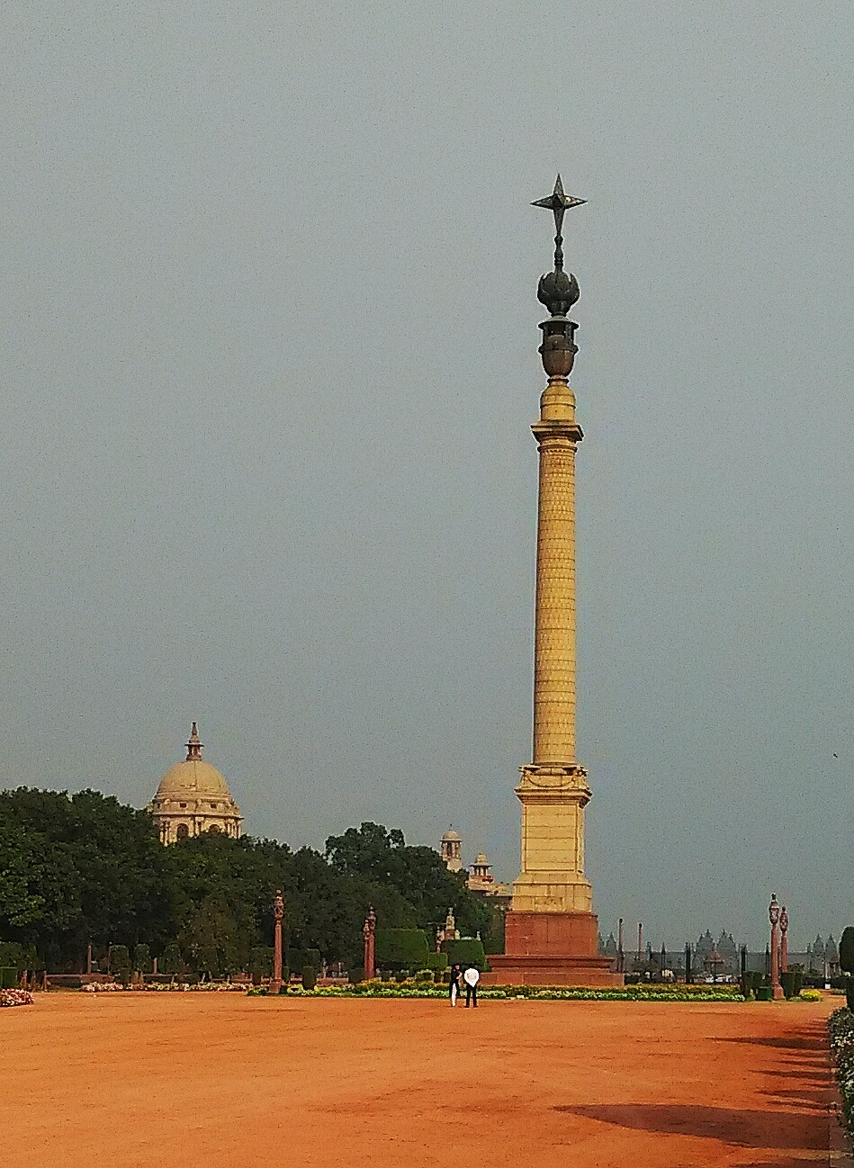 Jaipur Column from west with north block at Rashtrapati Bhawan